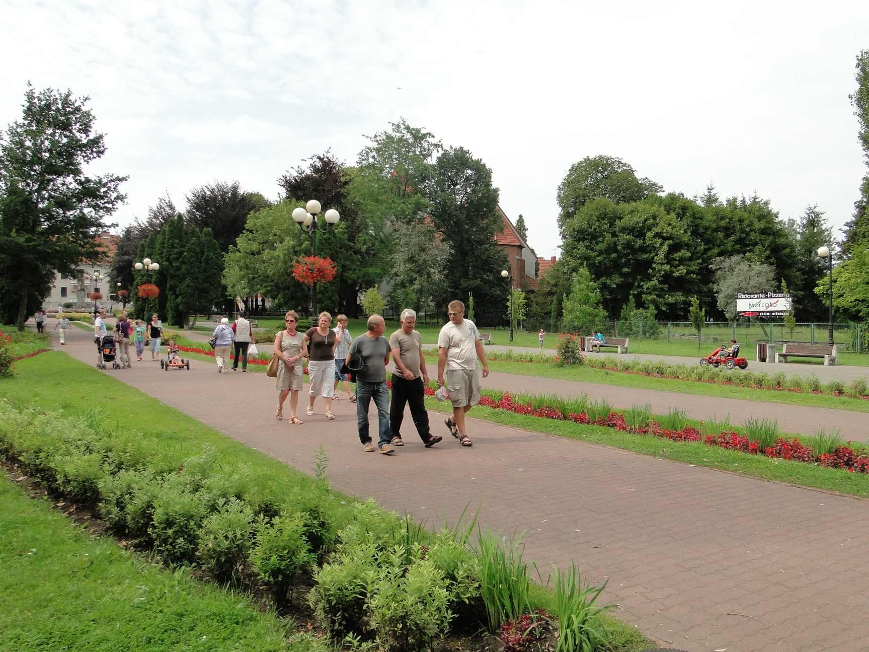 Promenade near west bank of Czos Lake, Mrągowo